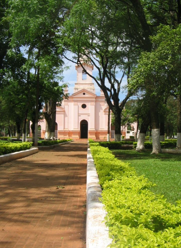 Main place and church in Yuty City, Paraguay